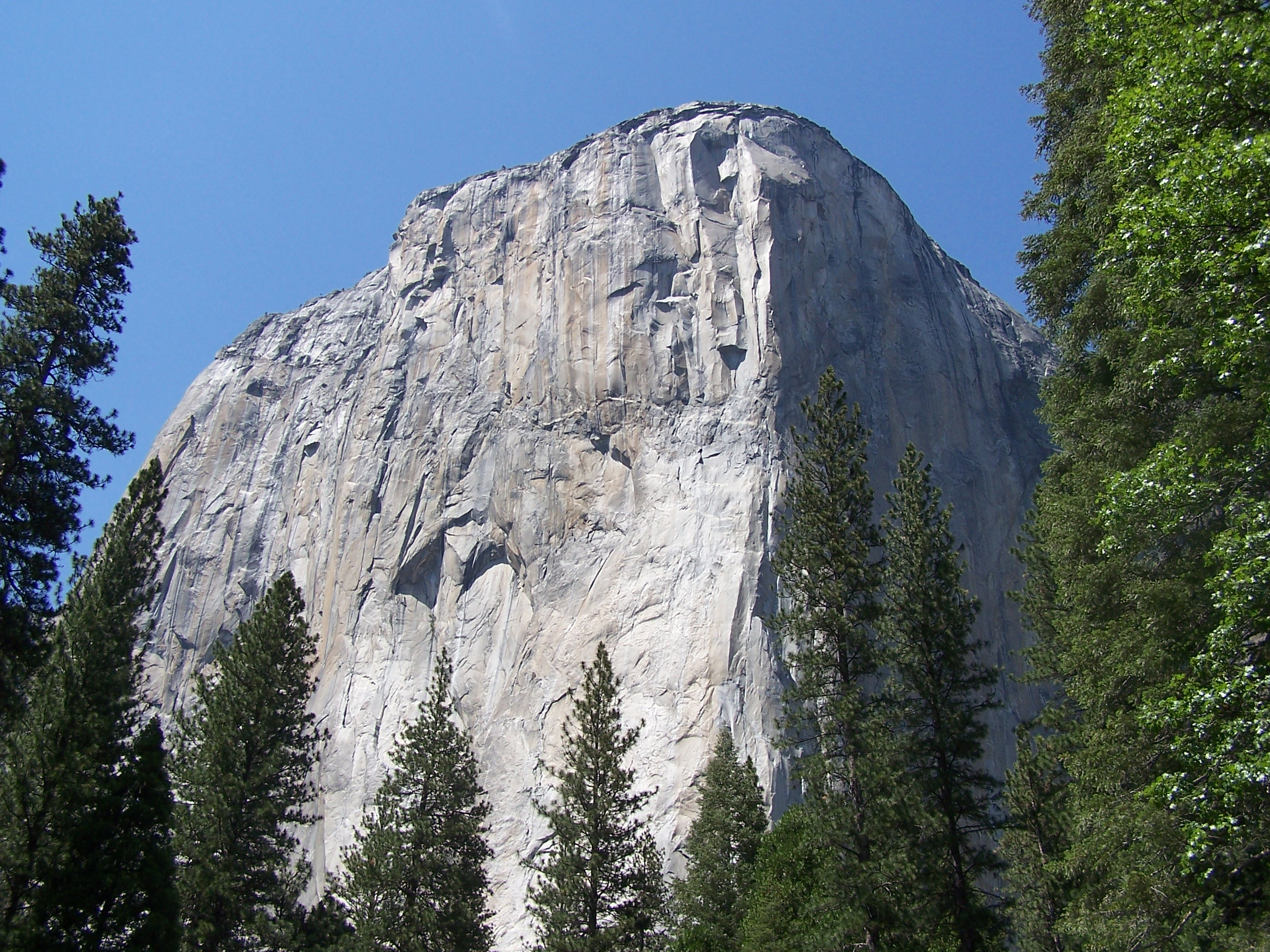 El Capitan in the Yosemite Valley.